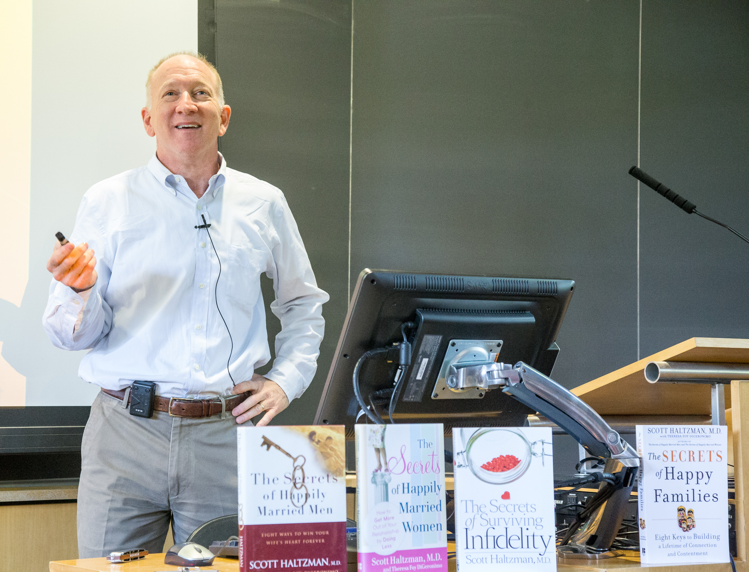 Author Scott Haltzman with four of his books.